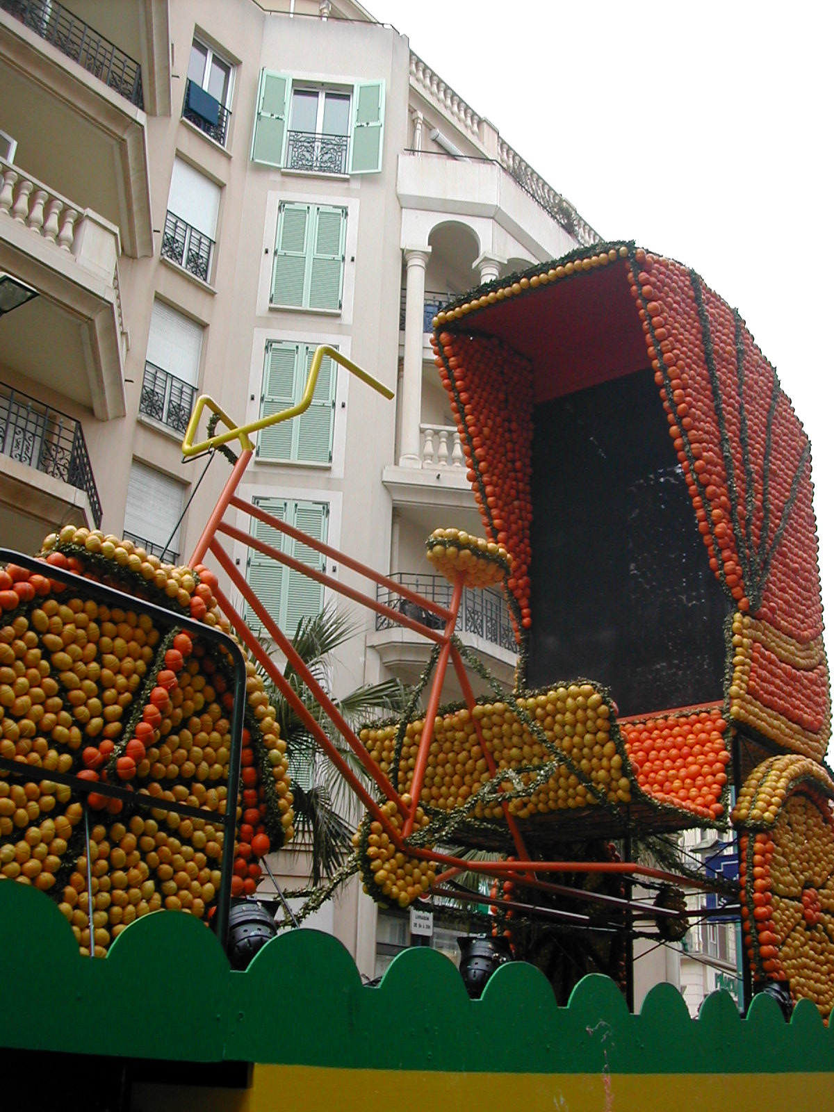 Lemon party from Menton